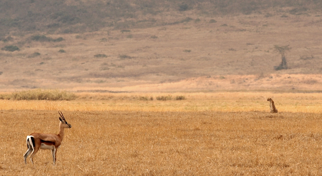 Gazelle (Gazella sp.) and Gepard (Acinonyx jubatus) at Ngorongoro, Serengeti, Tanzania, Africa text at flickr: The cheetah in the background had just killed and eaten most of the baby gazelle. The rest of the herd was long gone, but mom - naturally worried for the kid - was looking in the direction where the (left over of the ) dead baby was being eaten by hyenas. Place: NgoroNgoro Crater, Tanzania, Africa